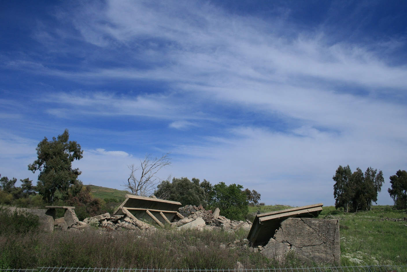 The ruins of Ein-Zivan, Golan Heights, Israel.